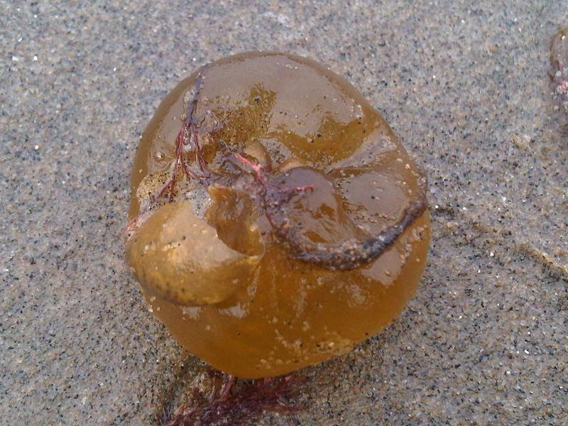 The gas-filled bladder (pneumatocysts) of probably Colpomenia peregrina on Red Algae, from Isle of Wight, South-England seashores.